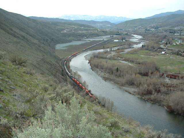 Looking upstream, a train hauling containers runs along the Wenatchee River.